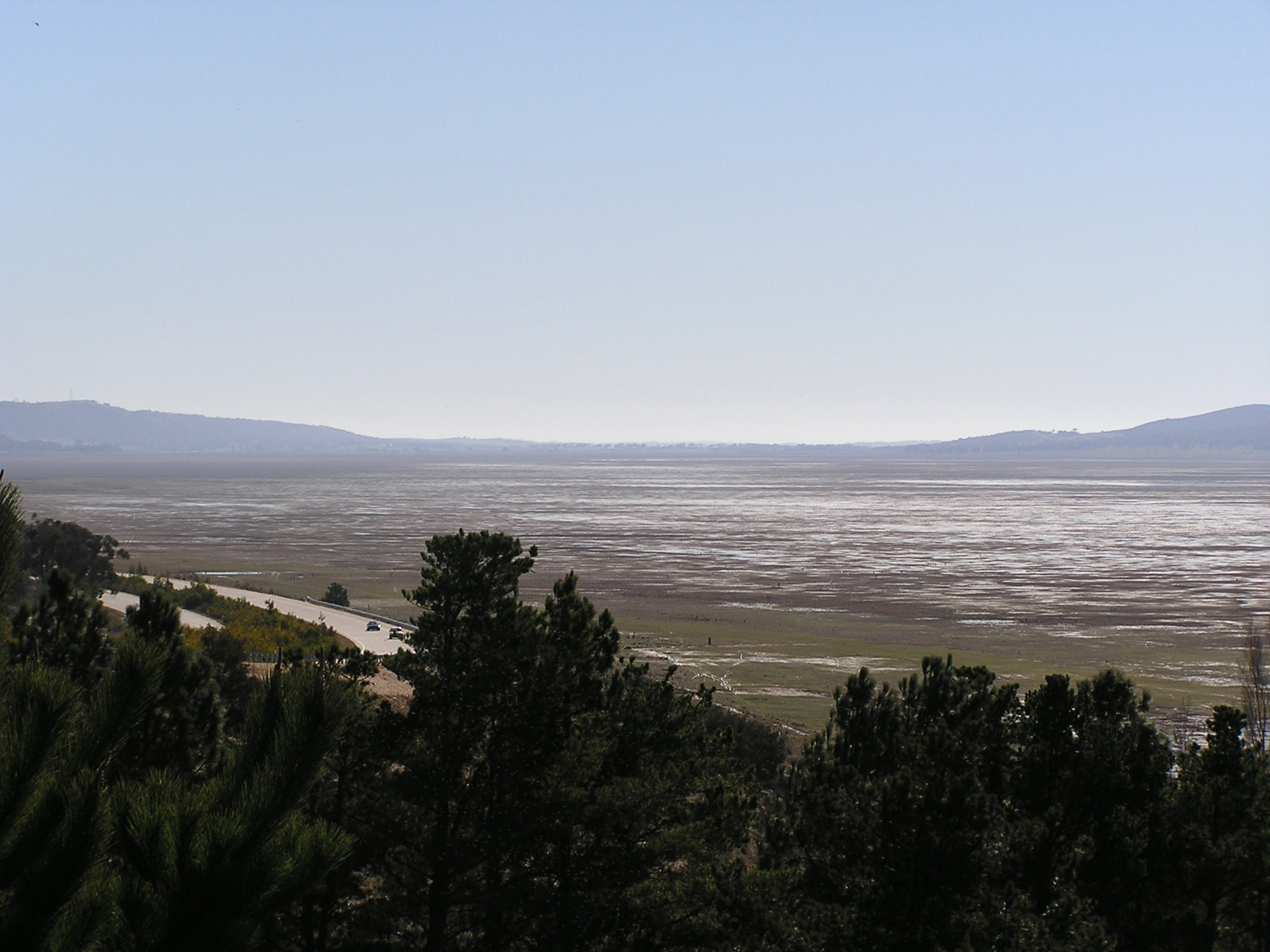 Lake George, New South Wales, Australia